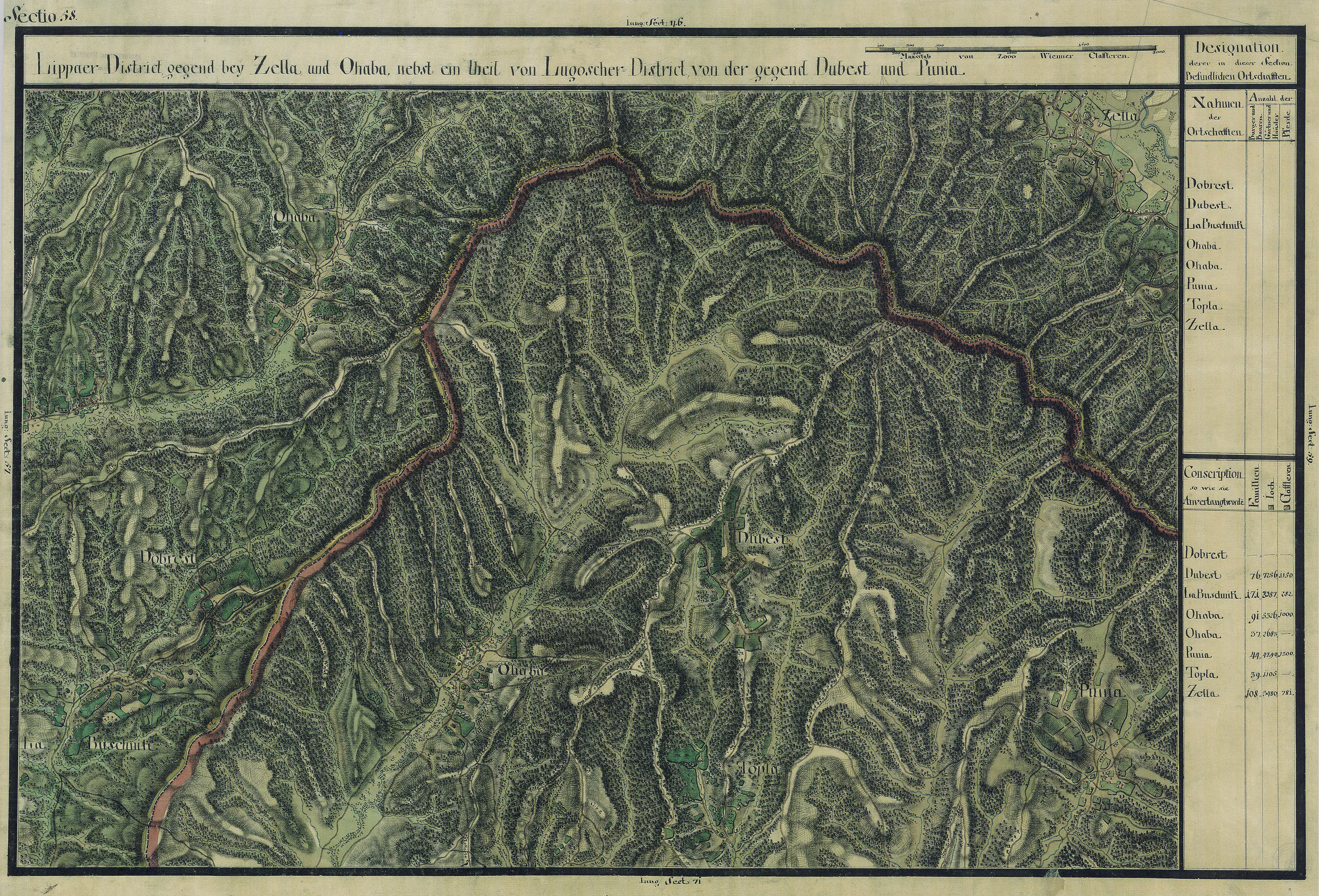 The Banat region in the cadastral maps: Josephinische Landesaufnahme, 1769-72. Josephinische Landaufnahme pg058